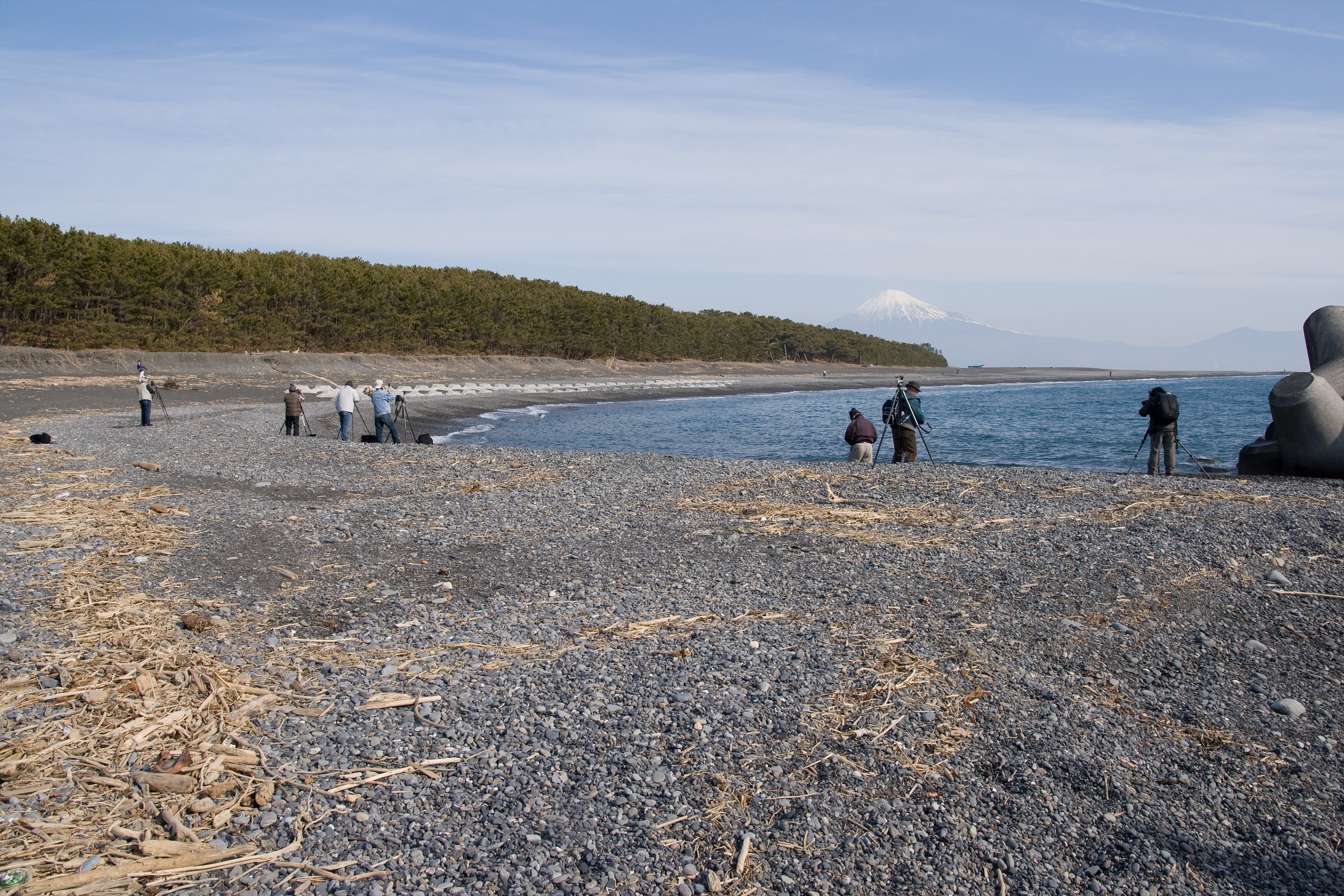 Mount Fuji as seen from Miho Coast in Shimizu ward, Shizuoka City, Shizuoka Pref., Japan.